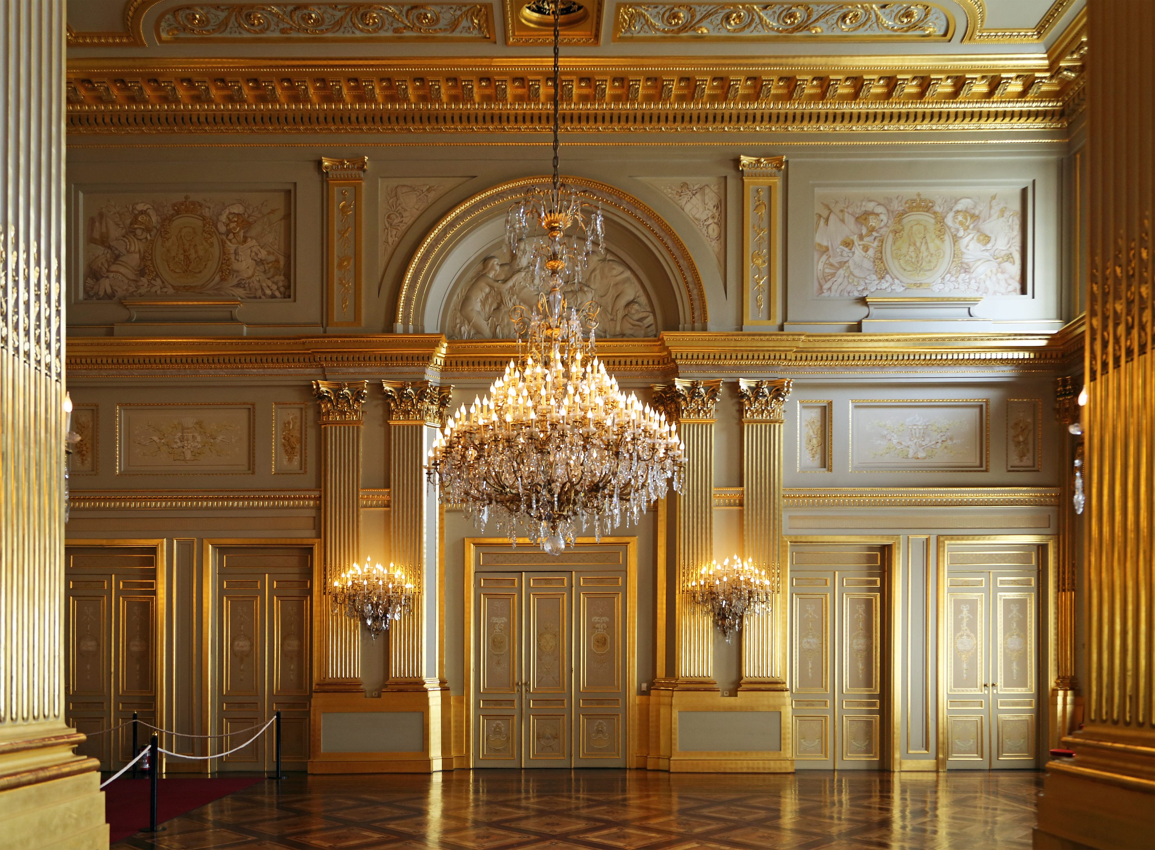 Brussels (Belgium): interior of the Royal Palace - detail of the Throne Room